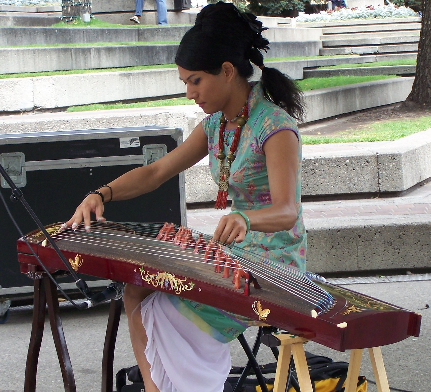 This is Vi An Diep performing on a 21-string guzheng at Olympic Plaza in Downtown Calgary, Alberta, Canada. This image has been cropped from the original.